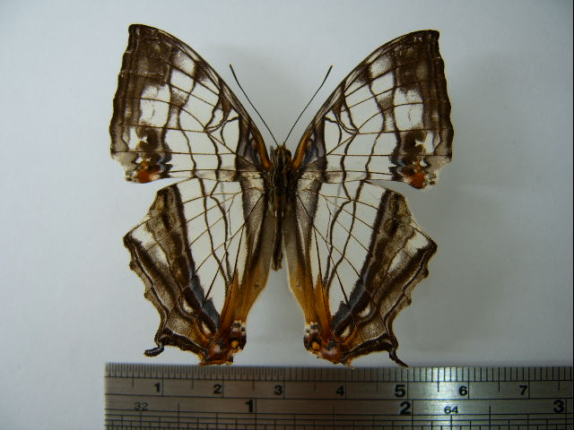 Kerry took this picture at his house on 16 July 2005 Scientific name: Cyrestis thyodamas formosana Date of collection: V 1996 Place of collection: Taipei city, Taiwan